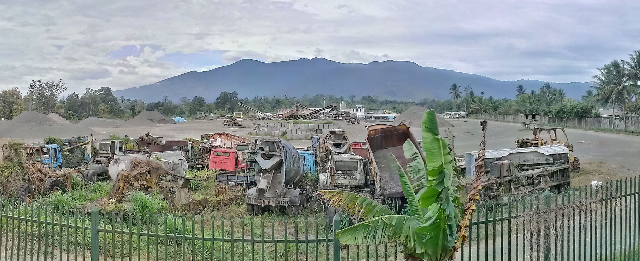 Photograph facing South West of Mount Shungol from 9 Mile weighbridge. Lae Builders & Contractors concrete batching plant in foreground